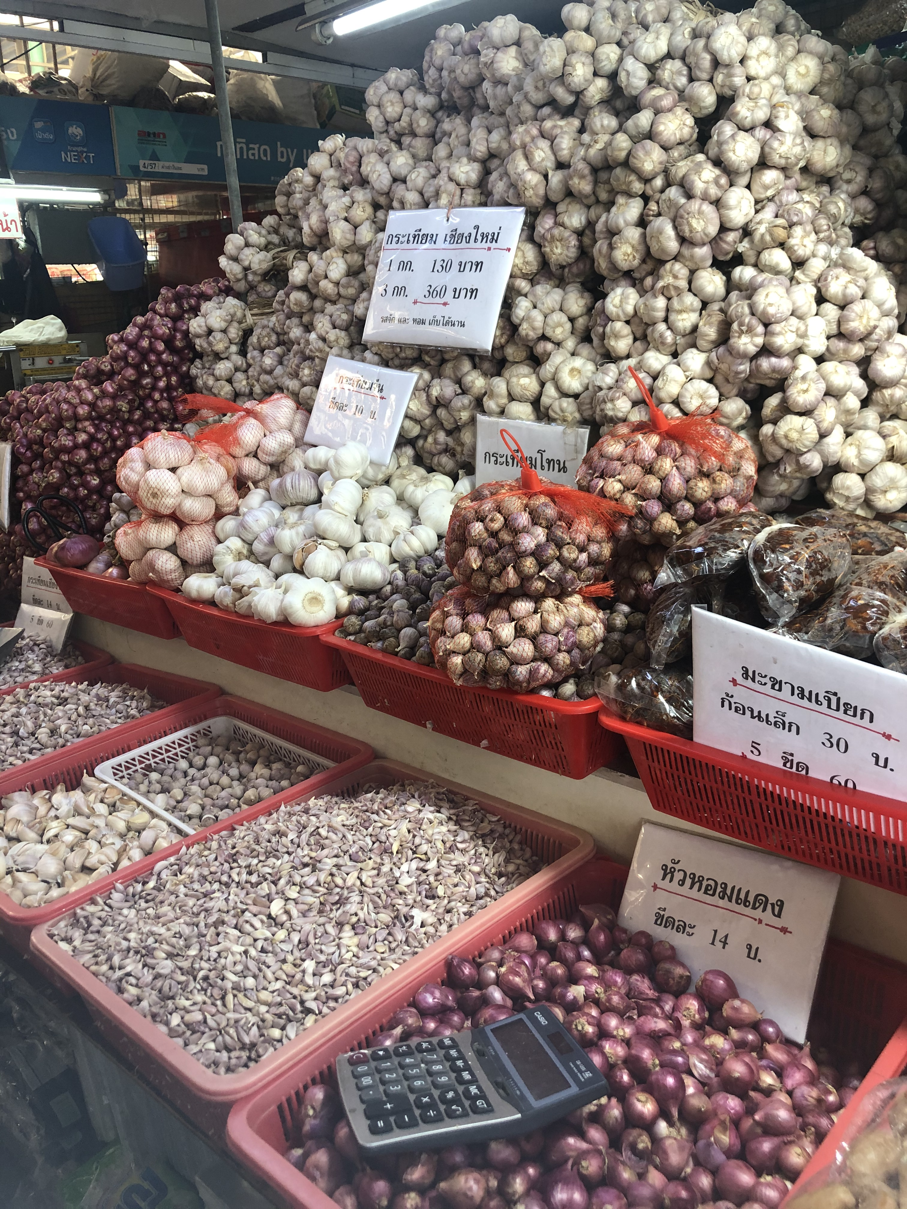 piles of different kinds of garlic for sale at the Or Tor Kor market, Bangkok